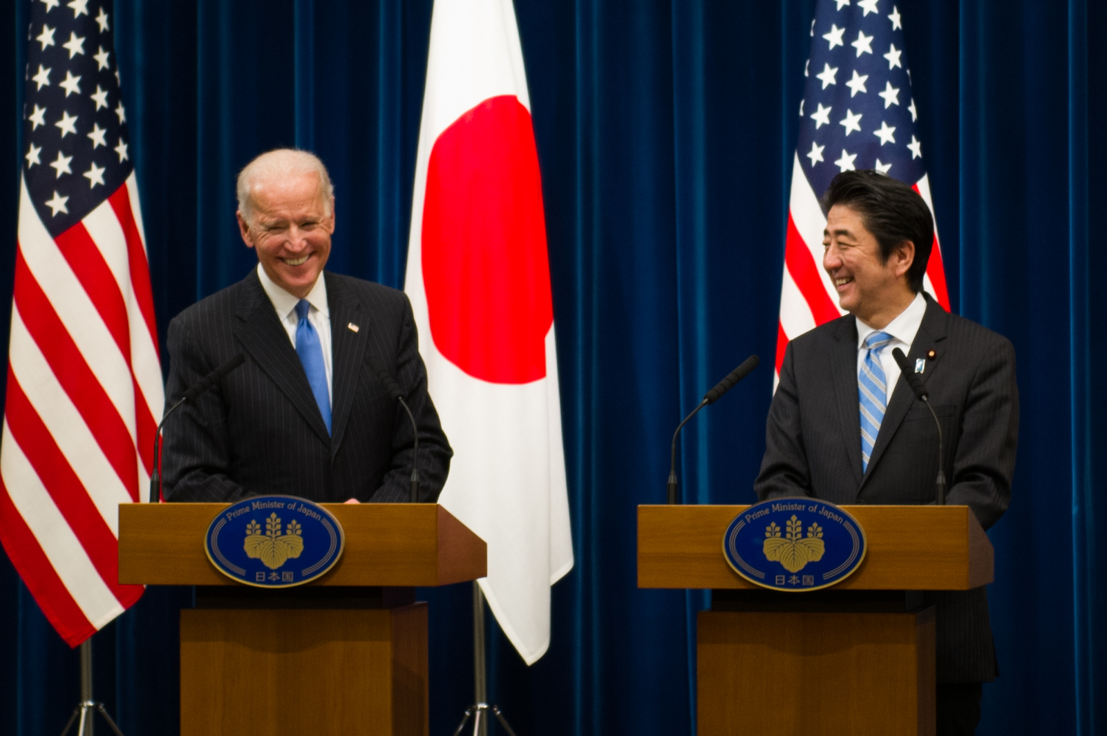 TOKYO, Japan (December 3, 2013) Vice President Joe Biden, with Japanese Prime Minister Shinzo Abe, addresses the international media after their meeting. [State Department photo by William Ng/Public Domain]